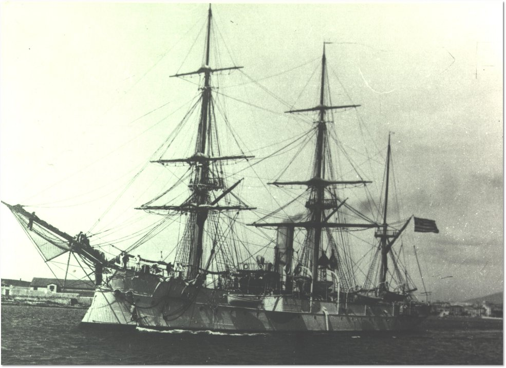 Greek cruiser “Miaoulis” 1880